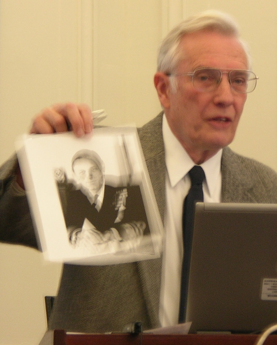 Edward Von der Porten presenting Drakes Bay National Historic and Archeological District National Historic Landmark in Washington, DC 2011